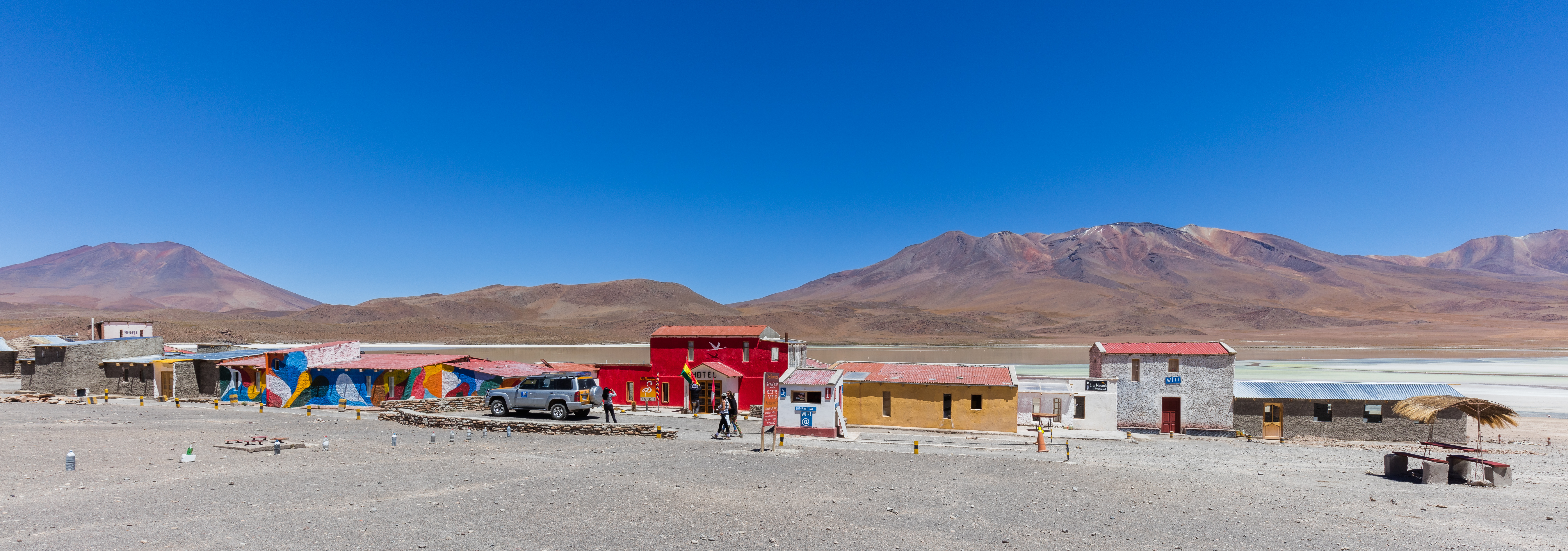 Colourful shop oasis at the Laguna Hedionda, Nor Lípez Province southwestern Bolivia.